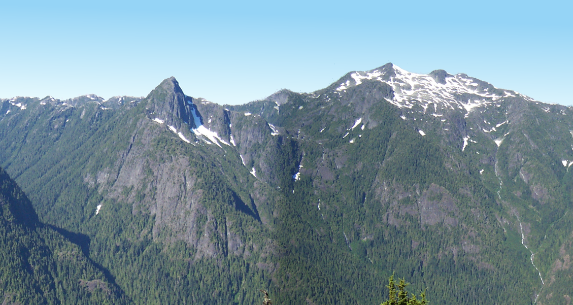 Puzzle Mountain's East aspect (right), viewed from Elkhorn Mountain. Volcano Lake lies behind the spire on the left.